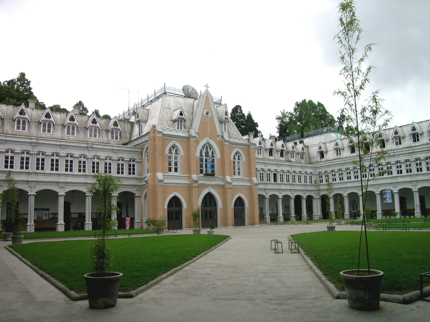 The Quadrangle inside St. Joseph's School, North Point, Darjeeling